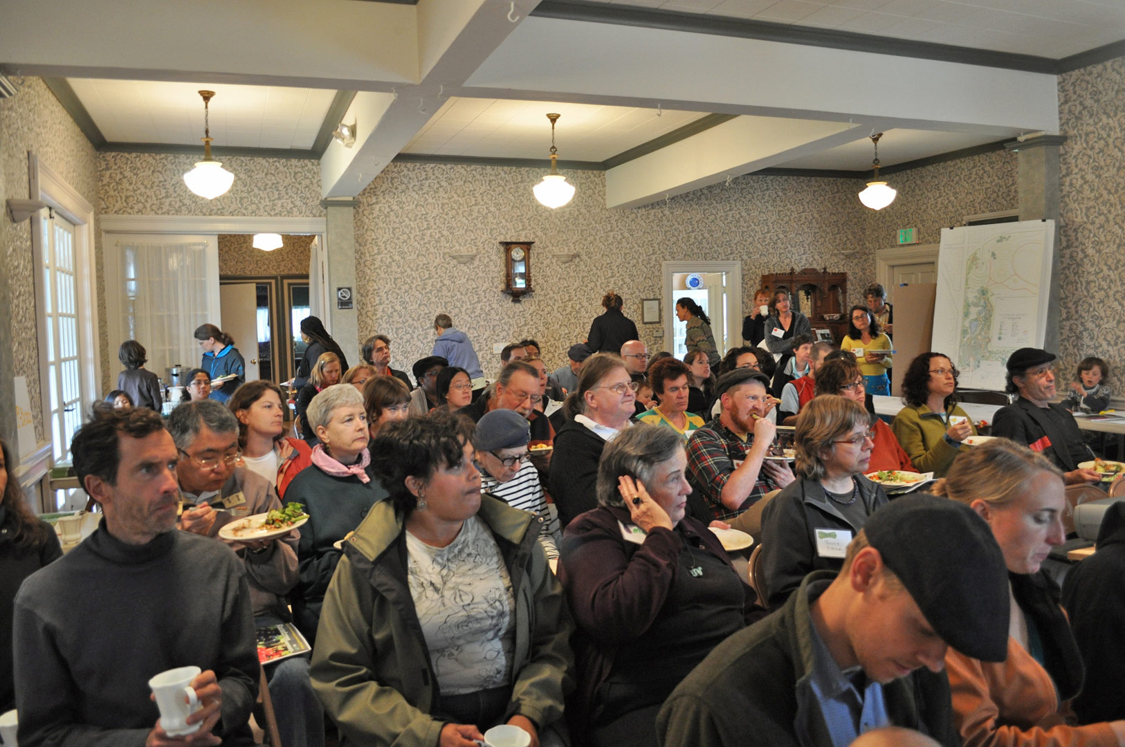 Image from 2011-06-07 Beacon Food Forest workshop at The Garden House on Beacon Hill in Seattle.